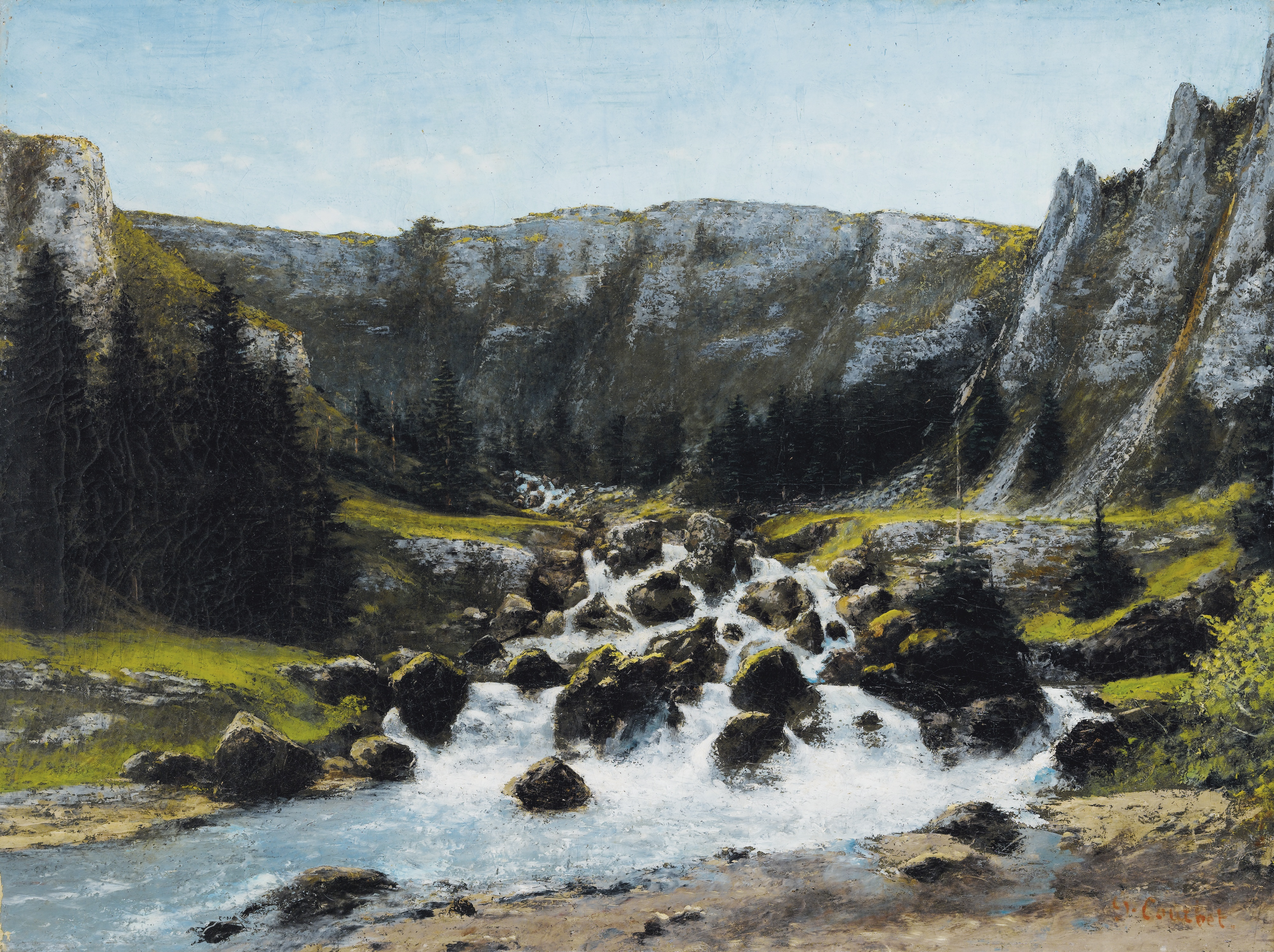 Painting oil on canvas by Cherubino Patà, signed G. Courbet